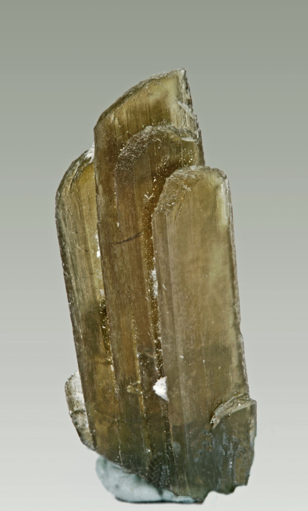 Clinozoisite - Locality: Mt Belvidere Quarries (Vermont Asbestos Group mine; VAG mine; Ruberoid Asbestos mine; Eden Mills quarries), Lowell & Eden, Orleans & Lamoille Cos., Vermont, USA - 1.4 cm. Found May 1994.